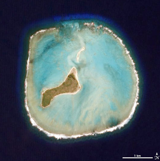 NASA satellite picture of Oeno Atoll (Pitcairn Islands) in the Pacific Ocean Taken by the Advanced Land Imager on NASA’s EO-1 satellite as part of a Mid-decadal Global Land Survey.